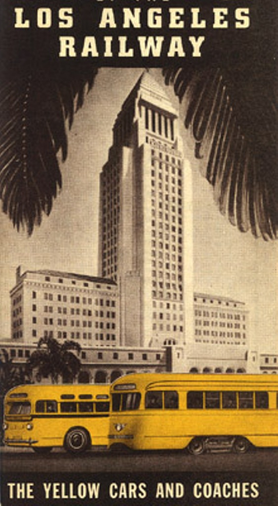 Los Angeles Railway (LARy) Yellow Car and coaches map (cover), 1942